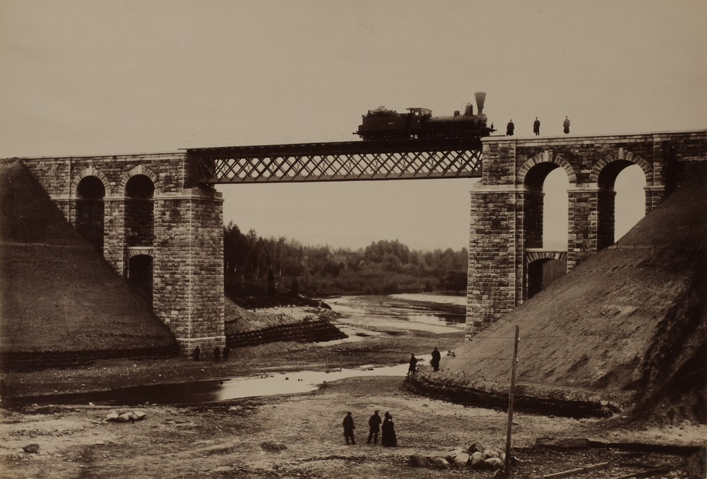 Railway bridge over the Rauna River, after the end of construction